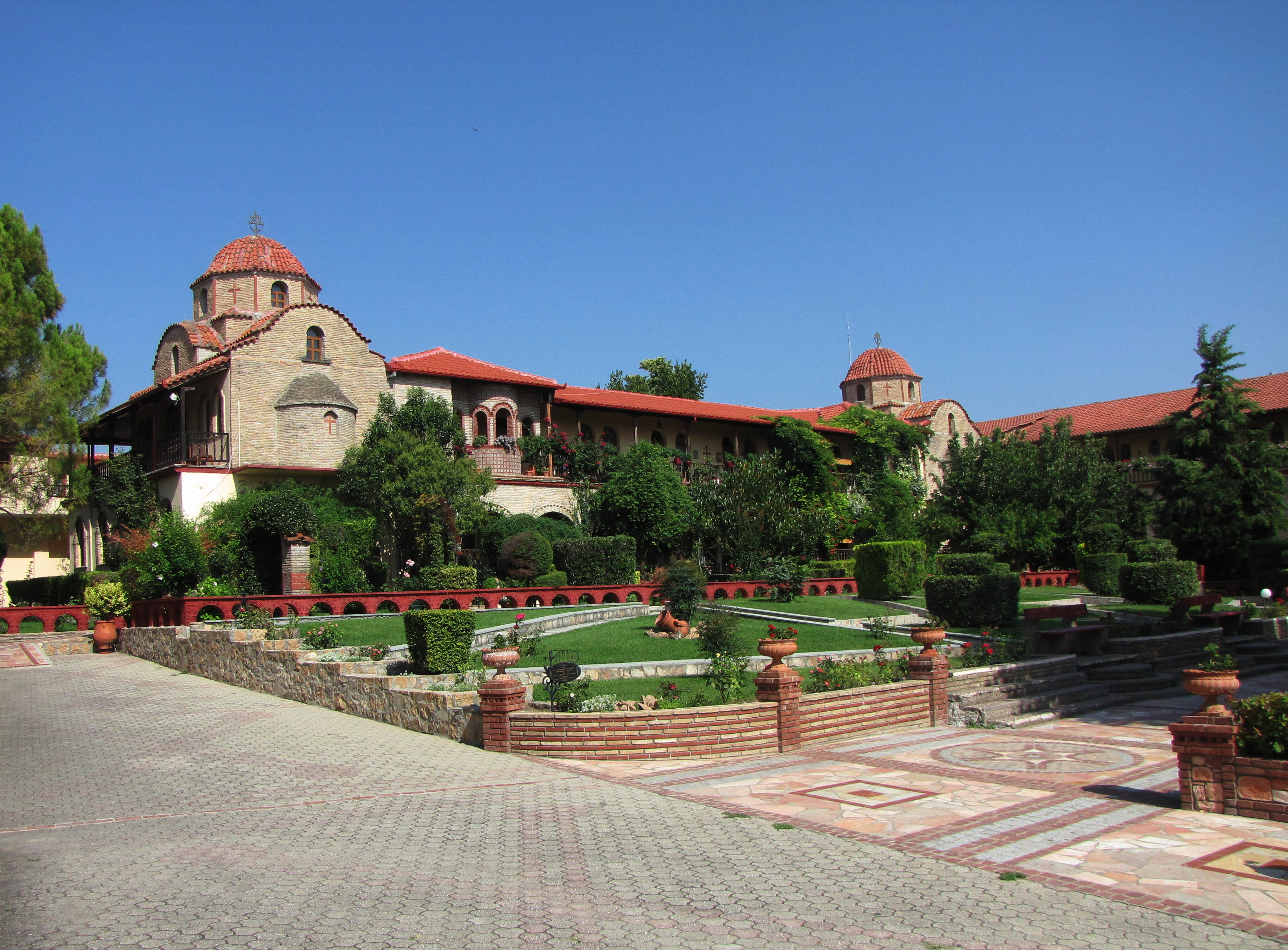 Monastery Ephraim, Church Agia Irini and administration building